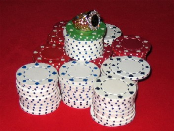 Taken by Danny Zumwalt at a TOC event.